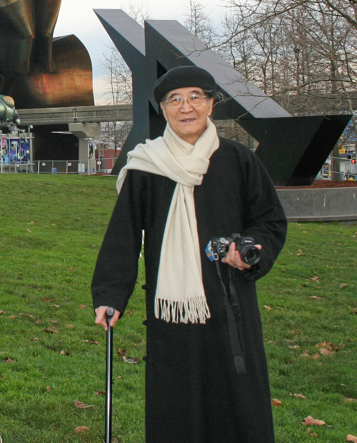 Photos of Han Pao Teh in Seattle, 2006.